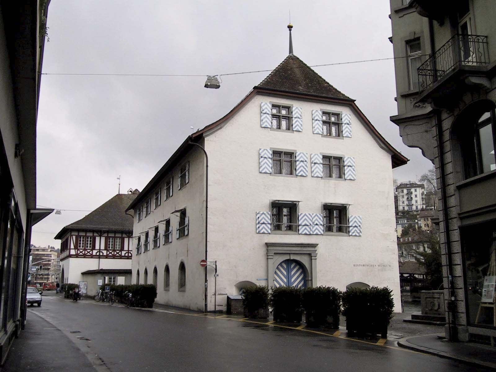 Museum of History Lucern